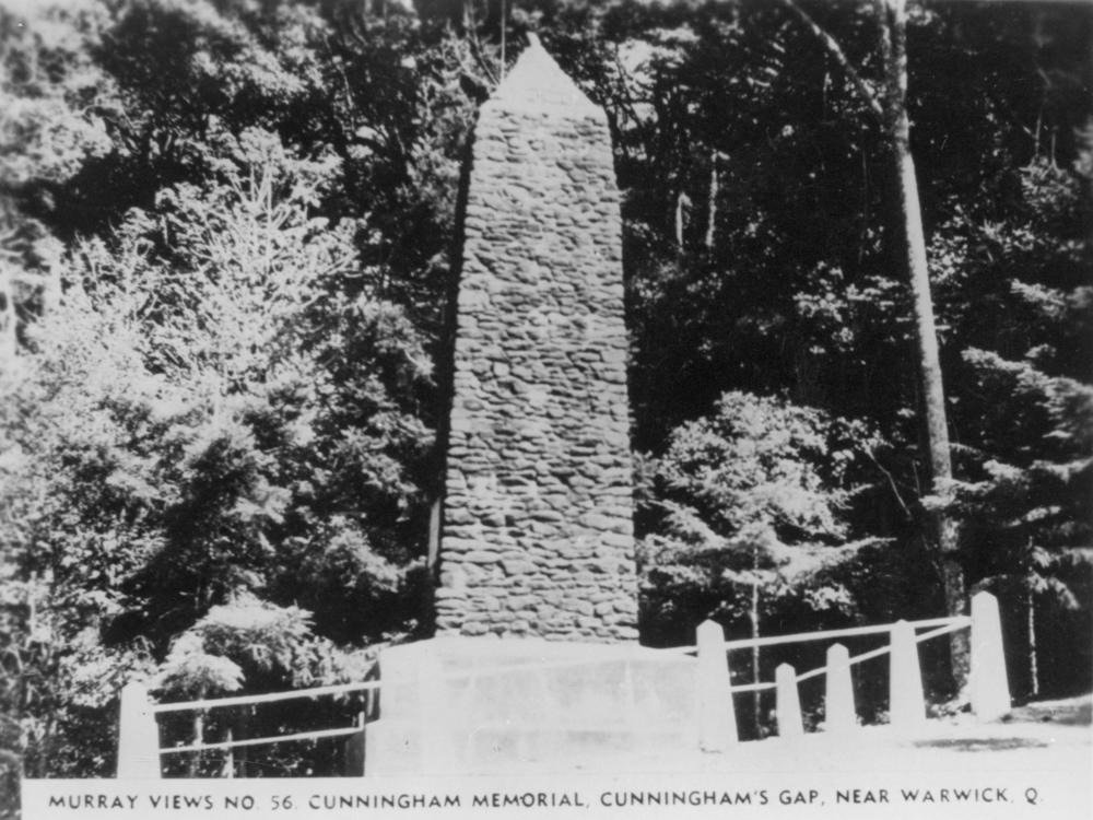 Memorial to explorer Allan Cunningham, Cunningham's Gap, ca. 1945. In 1827 Allan Cunningham discovered the Darling Downs and found the gap in the ranges, now bearing his name, which he thought would give access from Moreton Bay to the downs. He considered the fine grazing country of the Downs to be his greatest discovery.